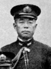 Tasuku Nakazawa is an Imperial Japanese Navy Vice Admiral